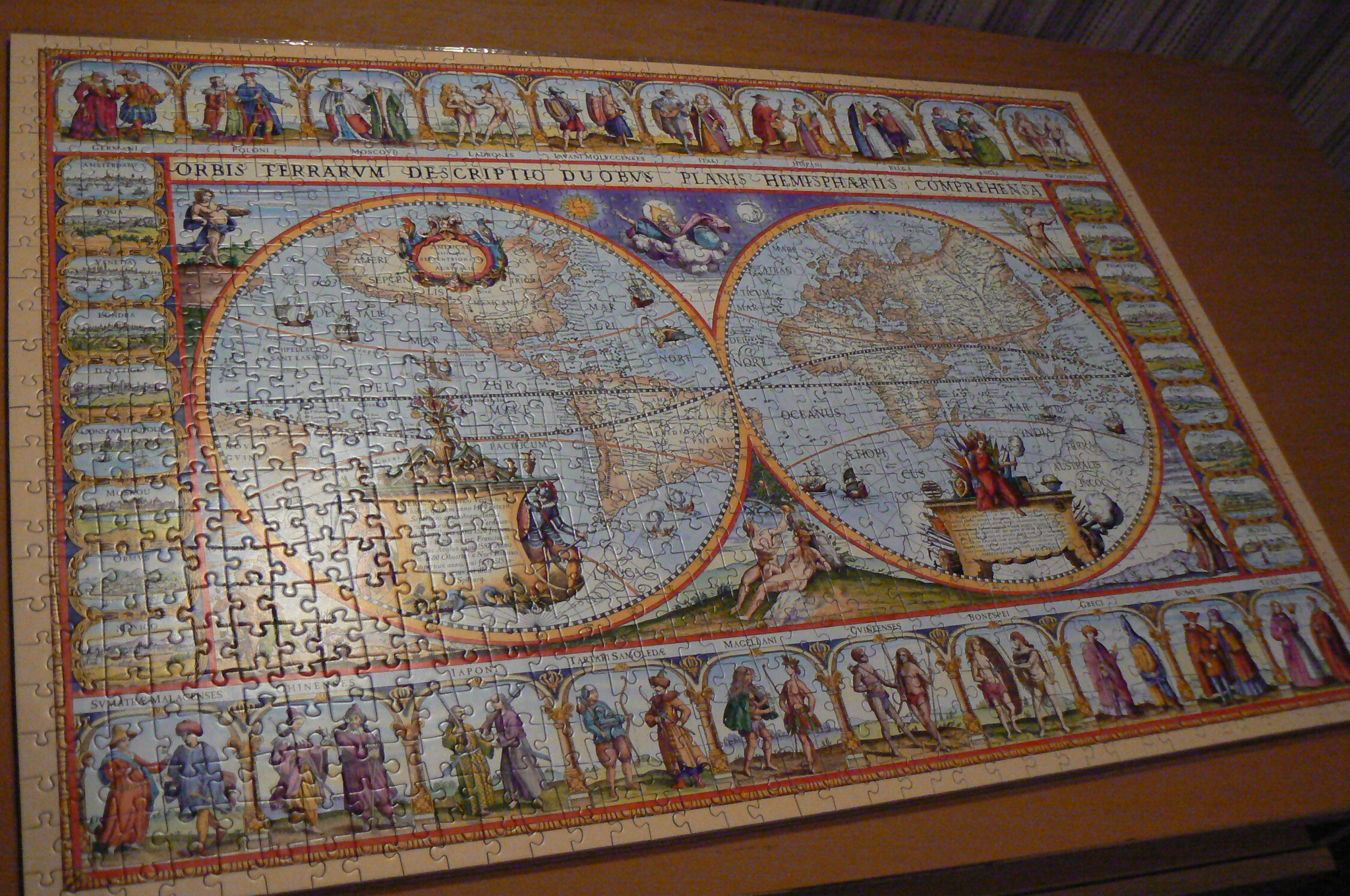 Done jigsaw puzzle of historical map from 1639 y.